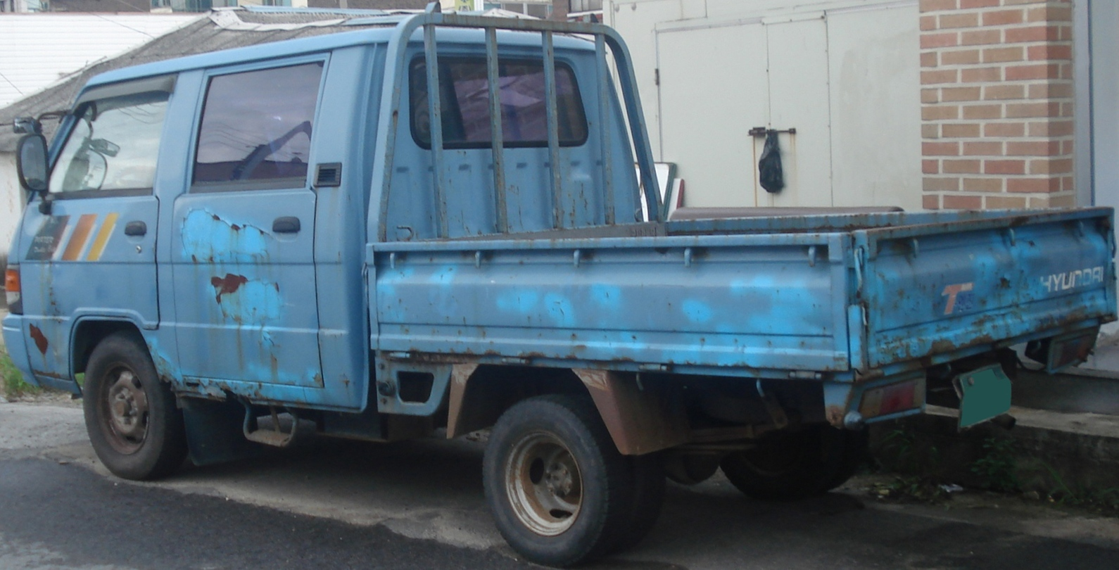 Hyundai Porter